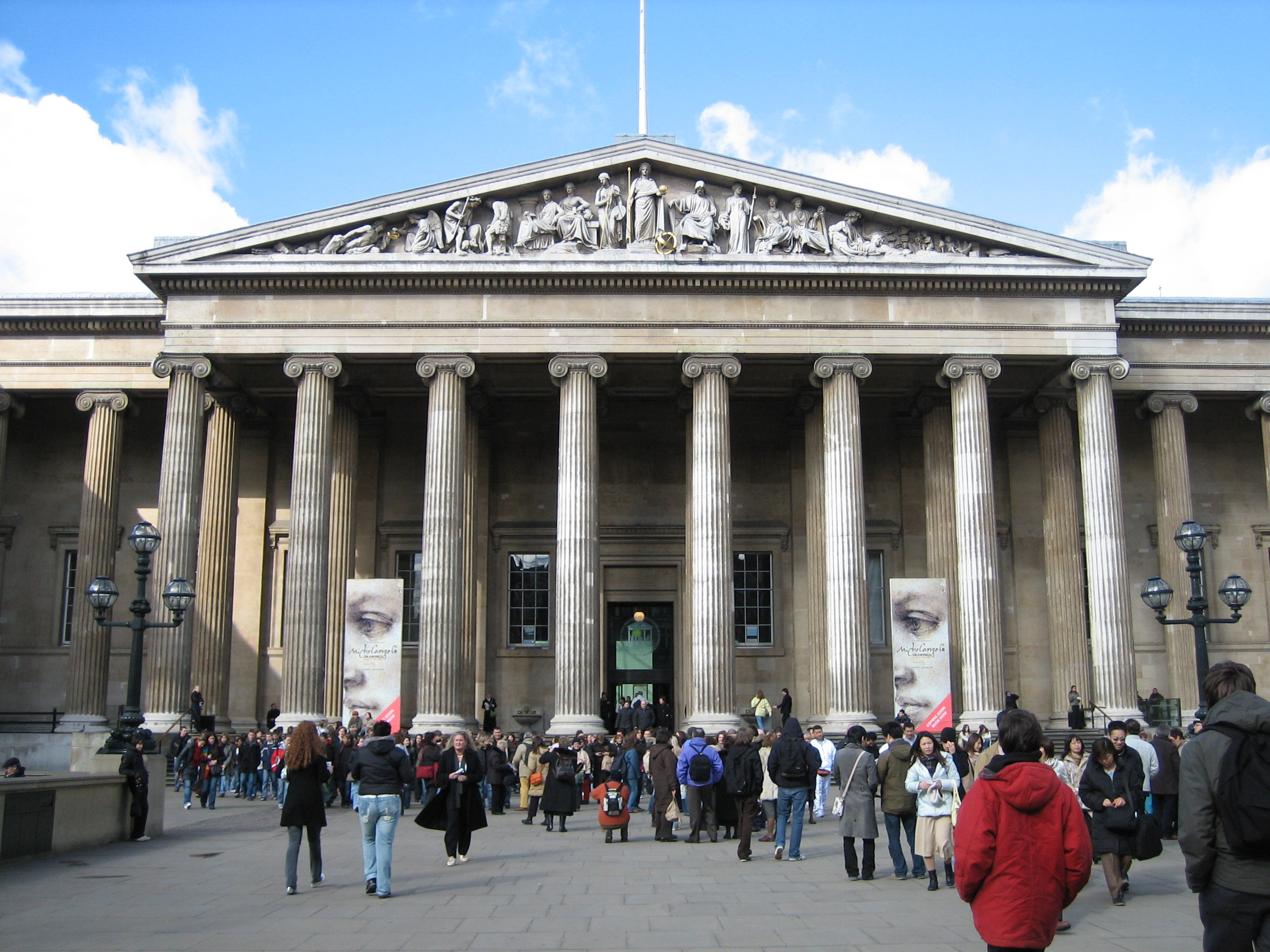 British Museum entrance, Bloomsbury, Camden, London, England, United Kingdom